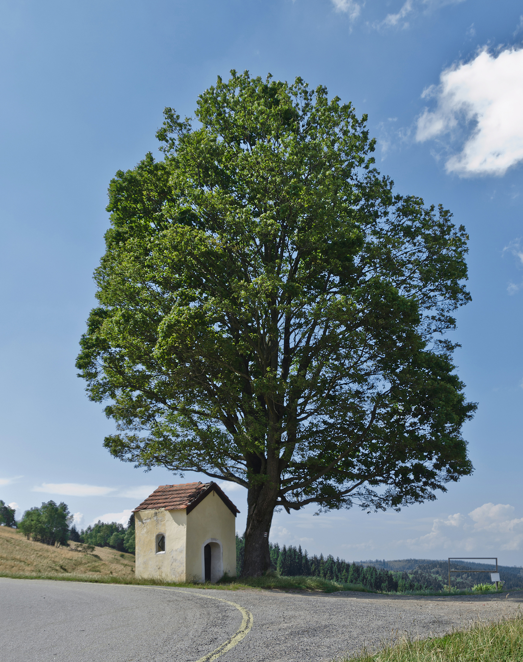 The chapel at the Puchaczówka Pass